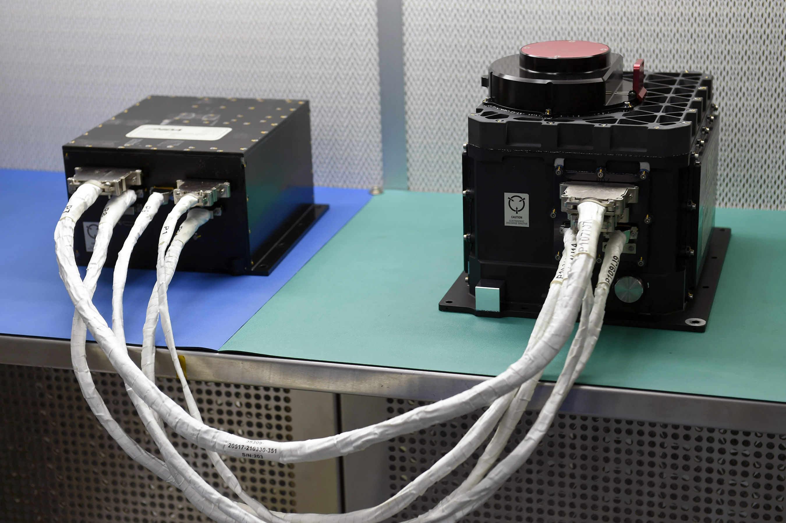 OSIRIS-REx spacecraft : PolyCam (center), MapCam (left), and SamCam (right) make up the OSIRIS-REx Camera Suite, responsible for most of the visible light images that will be taken by the spacecraft. Credit: University of Arizona/Symeon Platts